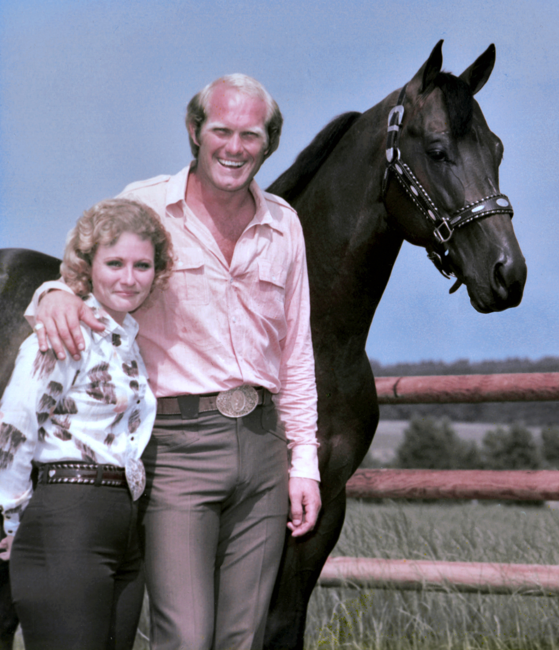 Magazine publisher Betty Wills and Pittsburgh Steeler quarterback Terry Bradshaw with his stallion Impressive Steeler during Bradshaw interview for a 1979 issue of the Texas & Southern Quarter Horse Journal.